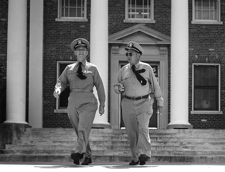 Admiral Arleigh A. Burke, USN, (at left) Chief of Naval Operations walking with Vice Admiral Austin K. Doyle, while leaving the Headquarters of the Chief of Naval Air Training, Naval Air Station Glenview, Illinois, during his visit there on 16 September 1955.Photo #: 80-G-682034